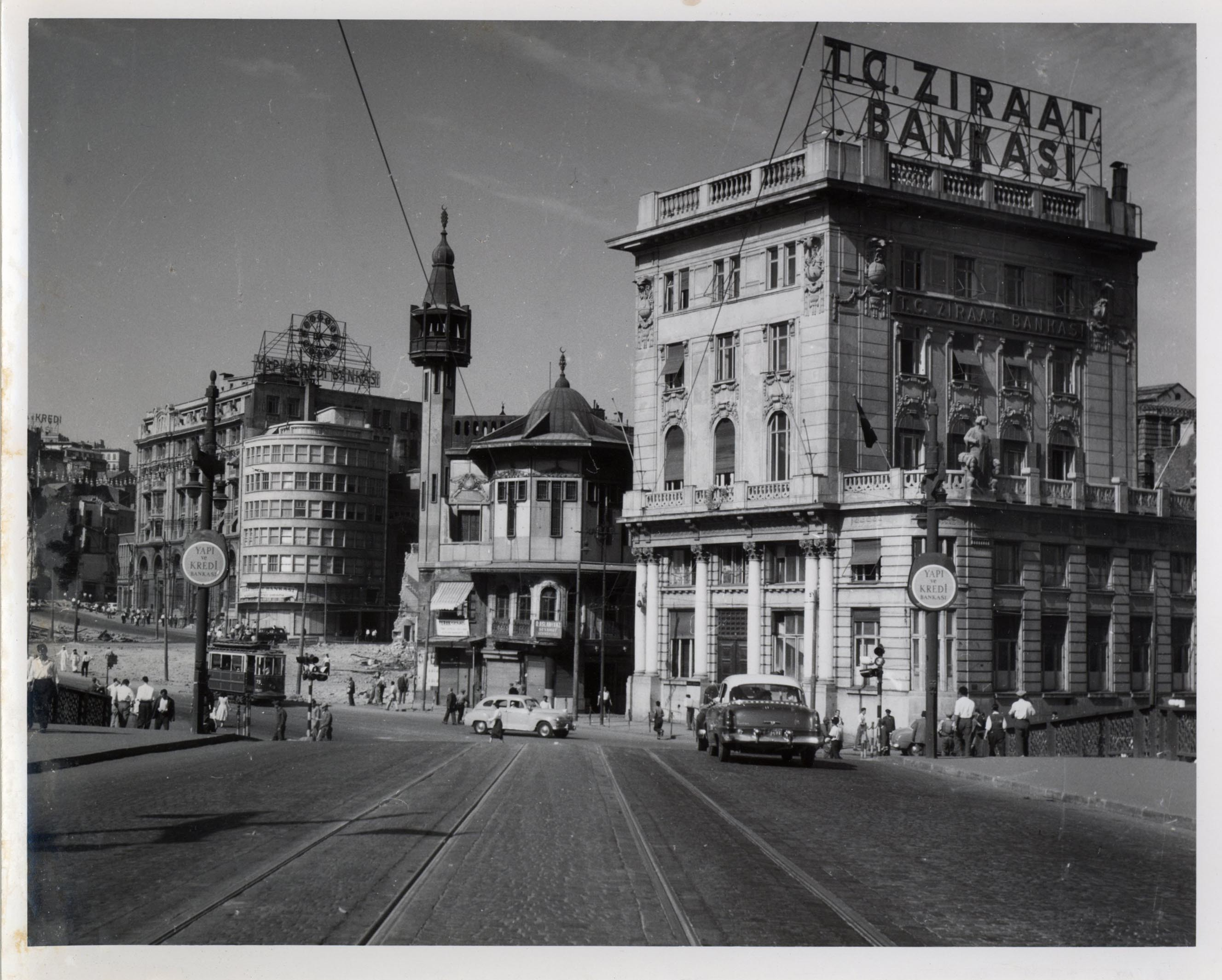 A view of Merzifonlu Kara Mustafa Pasha Mosque before the demolition, Karaköy, 15.08.1958 Photographer Halûk Doğanbey SALT Research, Ali Saim Ülgen Archive Merzifonlu Kara Mustafa Paşa Camii’nin yıkılmadan önceki görünümü, Karaköy, 15.08.1958 Fotoğrafçı Halûk Doğanbey SALT Araştırma, Ali Saim Ülgen Arşivi